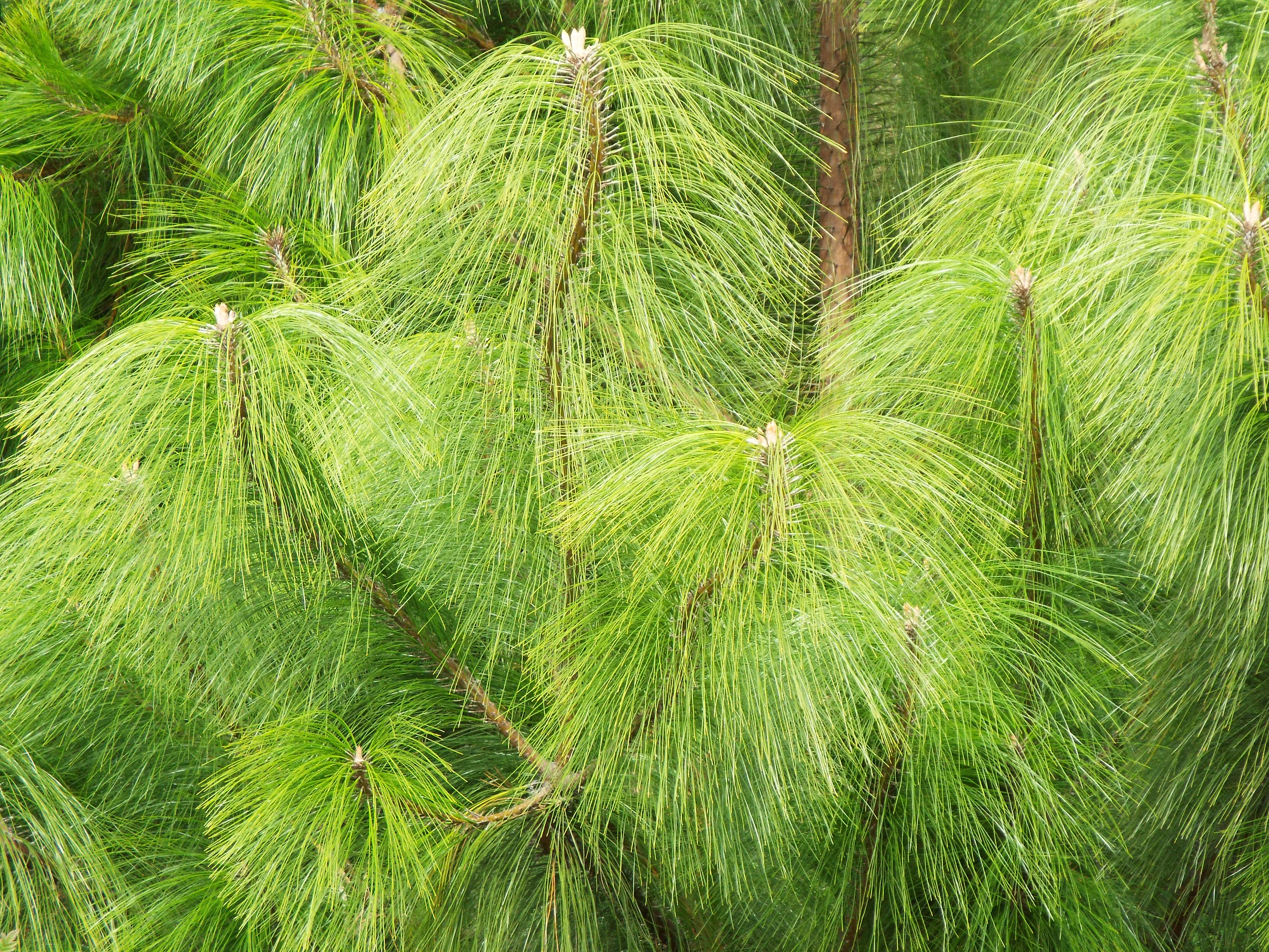 Pinus patula (Mexican weeping pine) Branches at Polipoli, Maui, Hawaii. December 03, 2013 #131203-2630 Image Use Policy